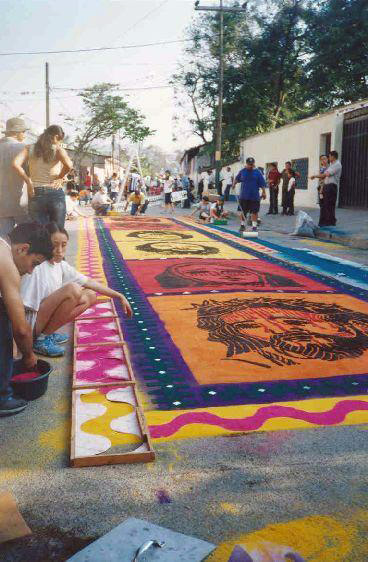 Saw dust carpet, a tradition during Holy Week in Comayagua, Honduras